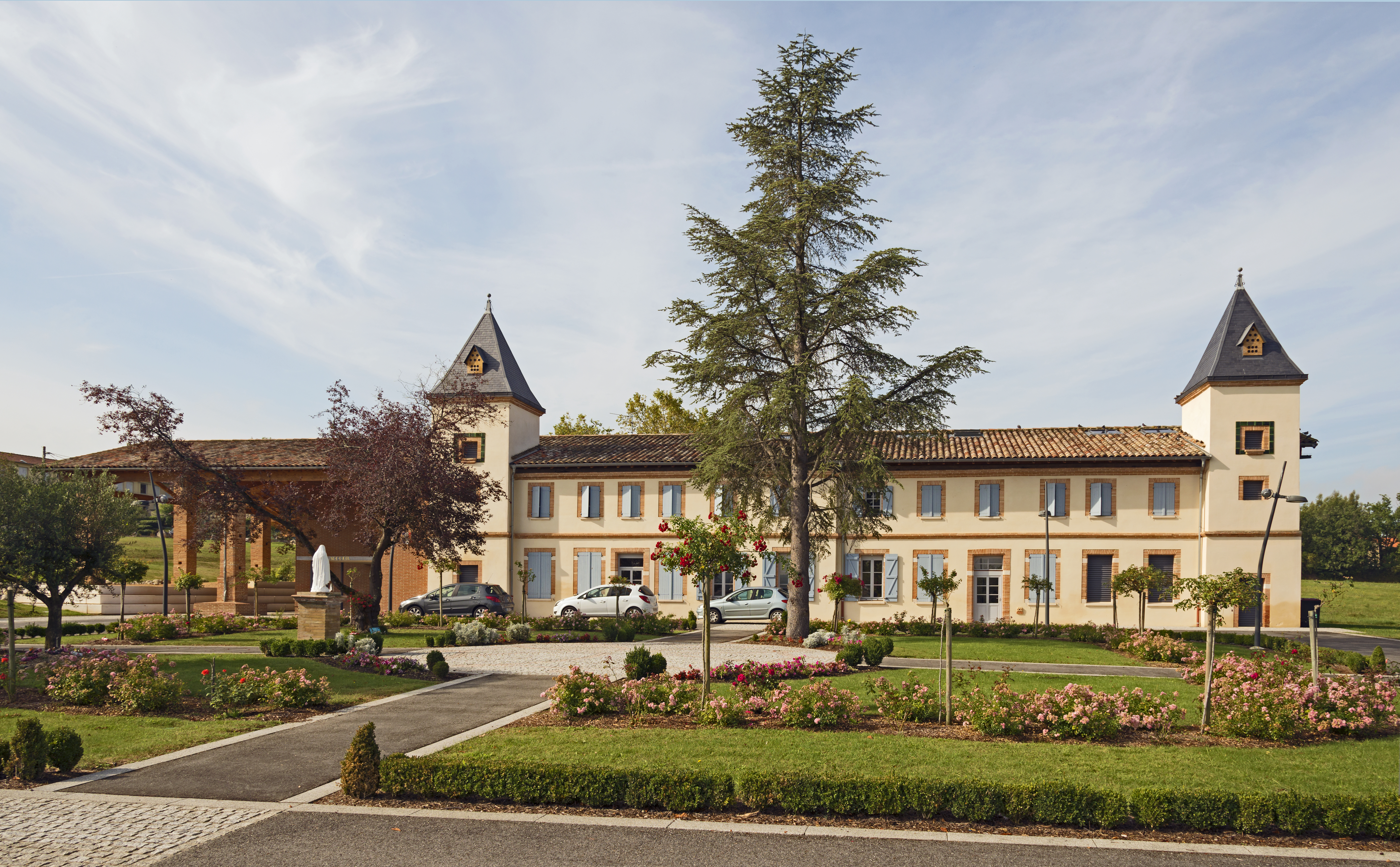 Saint-Sauveur, Haute-Garonne. Facade of Town Hall.